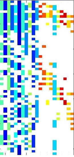 Compacted Hessian matrix in preparation to use automatic differentiation.